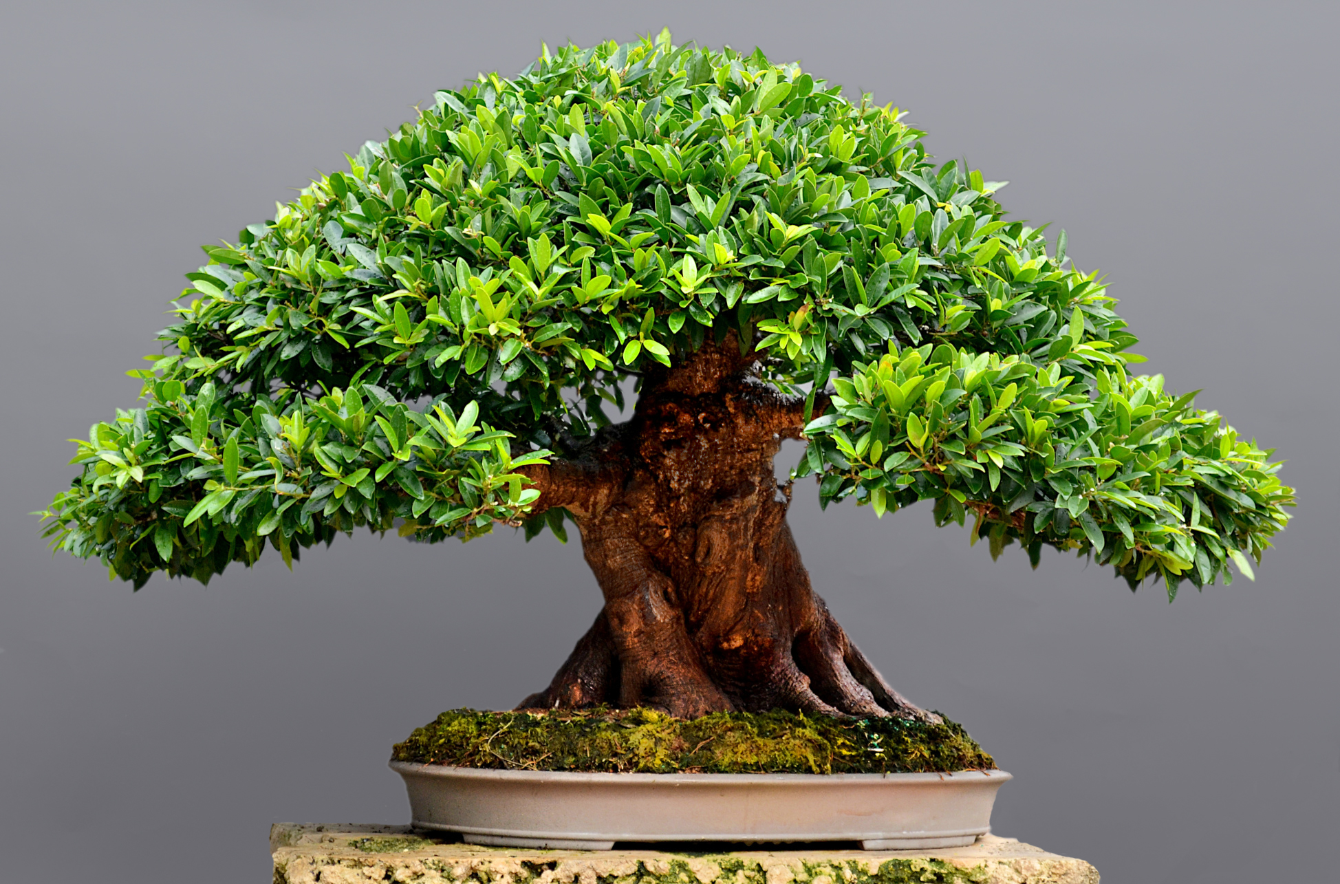 Heathcote Botanical Gardens is a five-acre botanical garden in Ft. Pierce, Florida. It hosts the James J. Smith Bonsai Collection.